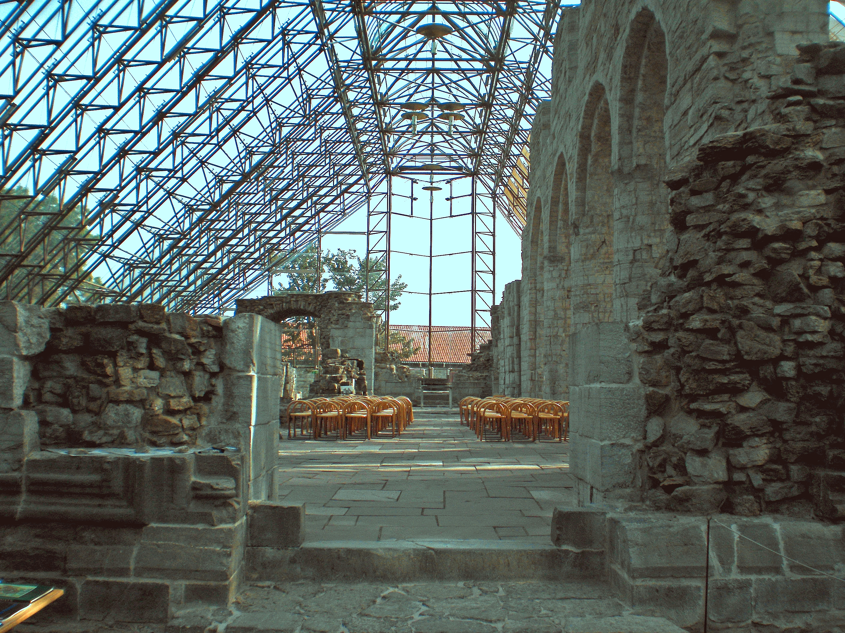 Photograph from the back of the right side of the Cathedral_Ruins_in_Hamar at the Hedmarksmuseet